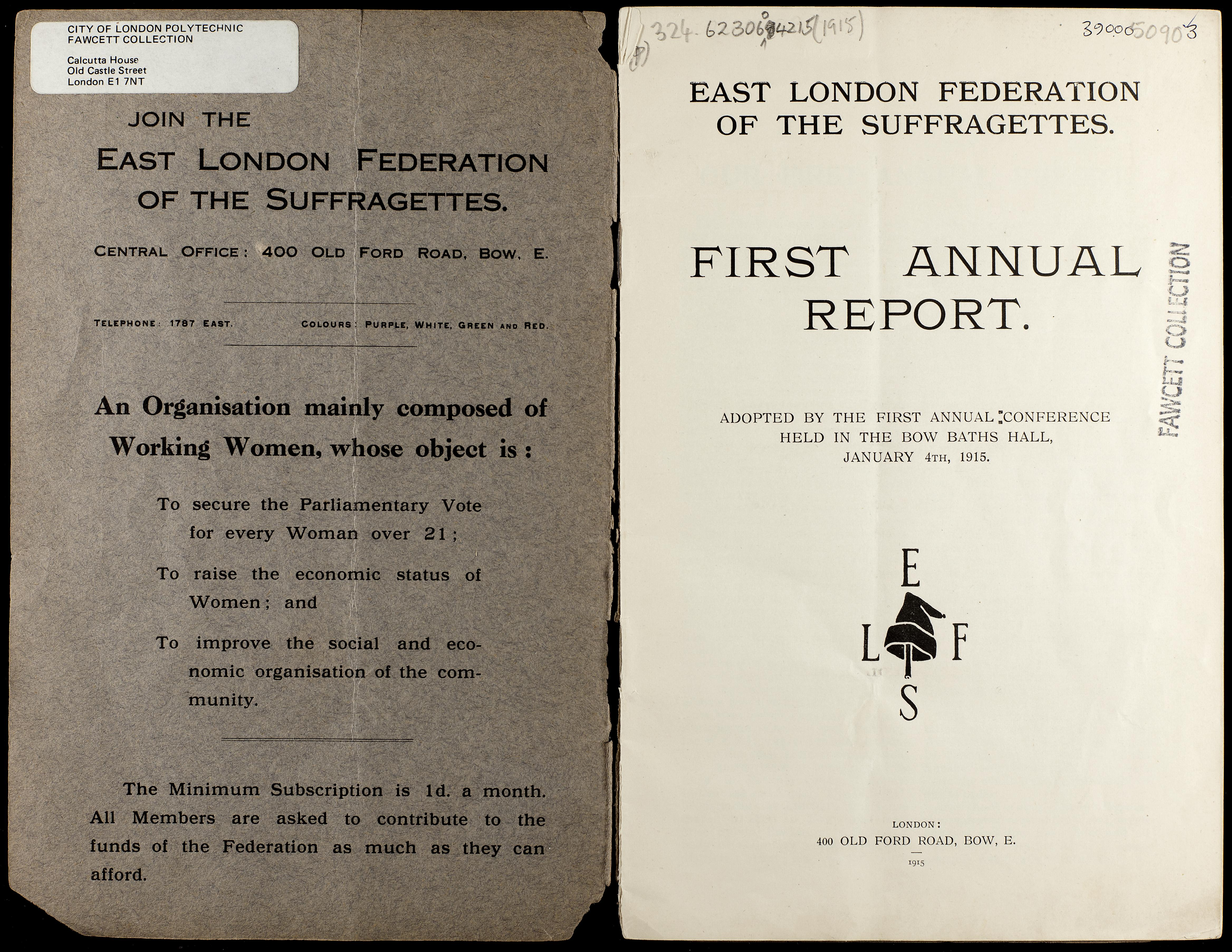 324.62306094215 EAS